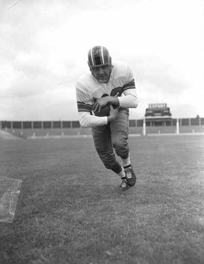 B.C. Lions football club, portraits, individual players, K.Higgs VPL Accession Number: 84791AH Date: August 21, 1955 Photographer / Studio: Jones, Art Content: Photo series 84791 to 84791AI Topic: Football players Portrait Stadiums Location: British Columbia - Vancouver - Hastings-Sunrise - Hastings Community Park Copyright Restrictions: Public Domain